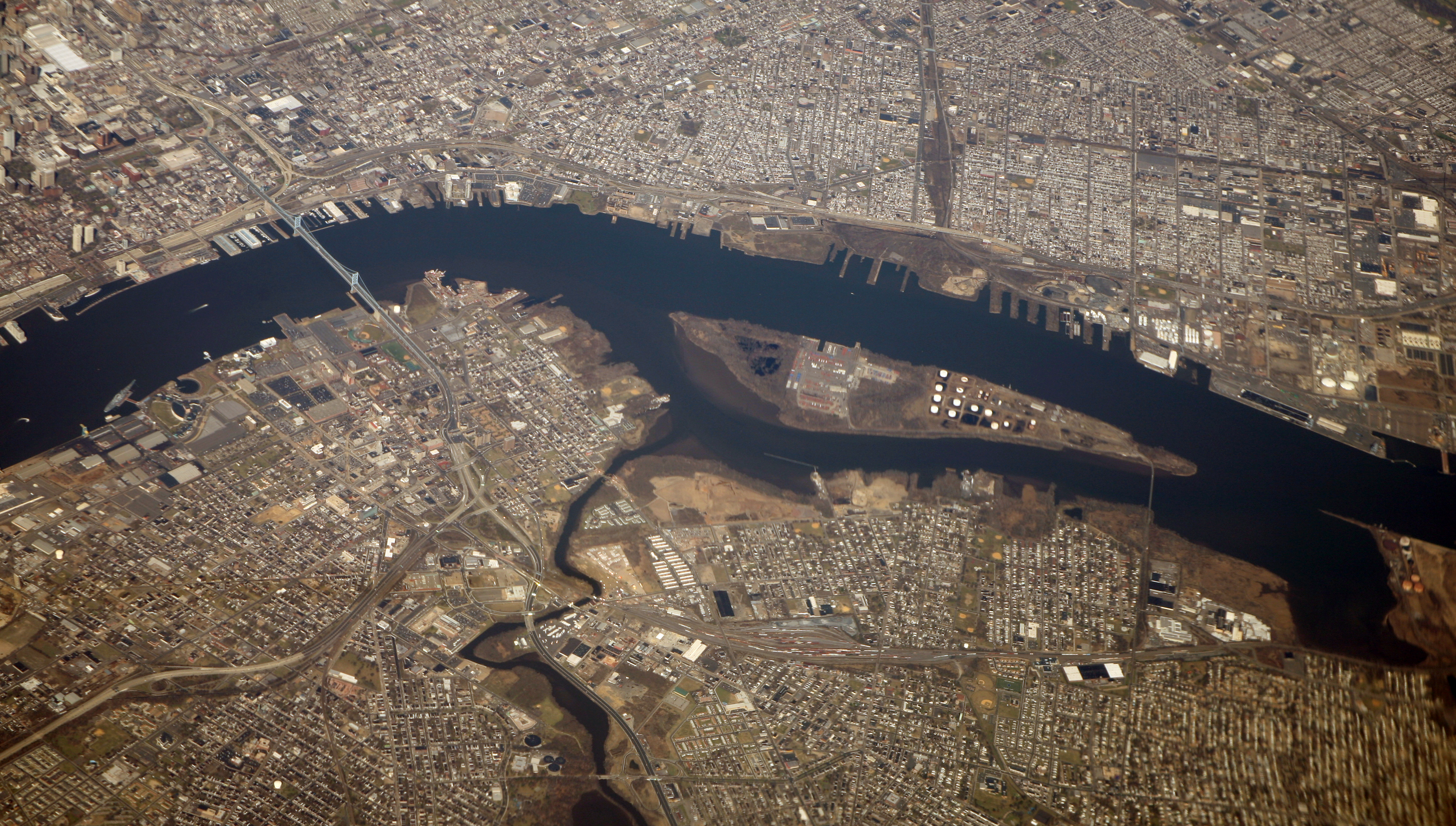 The Delaware River showing the ports at Philadelphia, Camden, Pensauken, Petty Island and the Benjamin Franklin Bridge